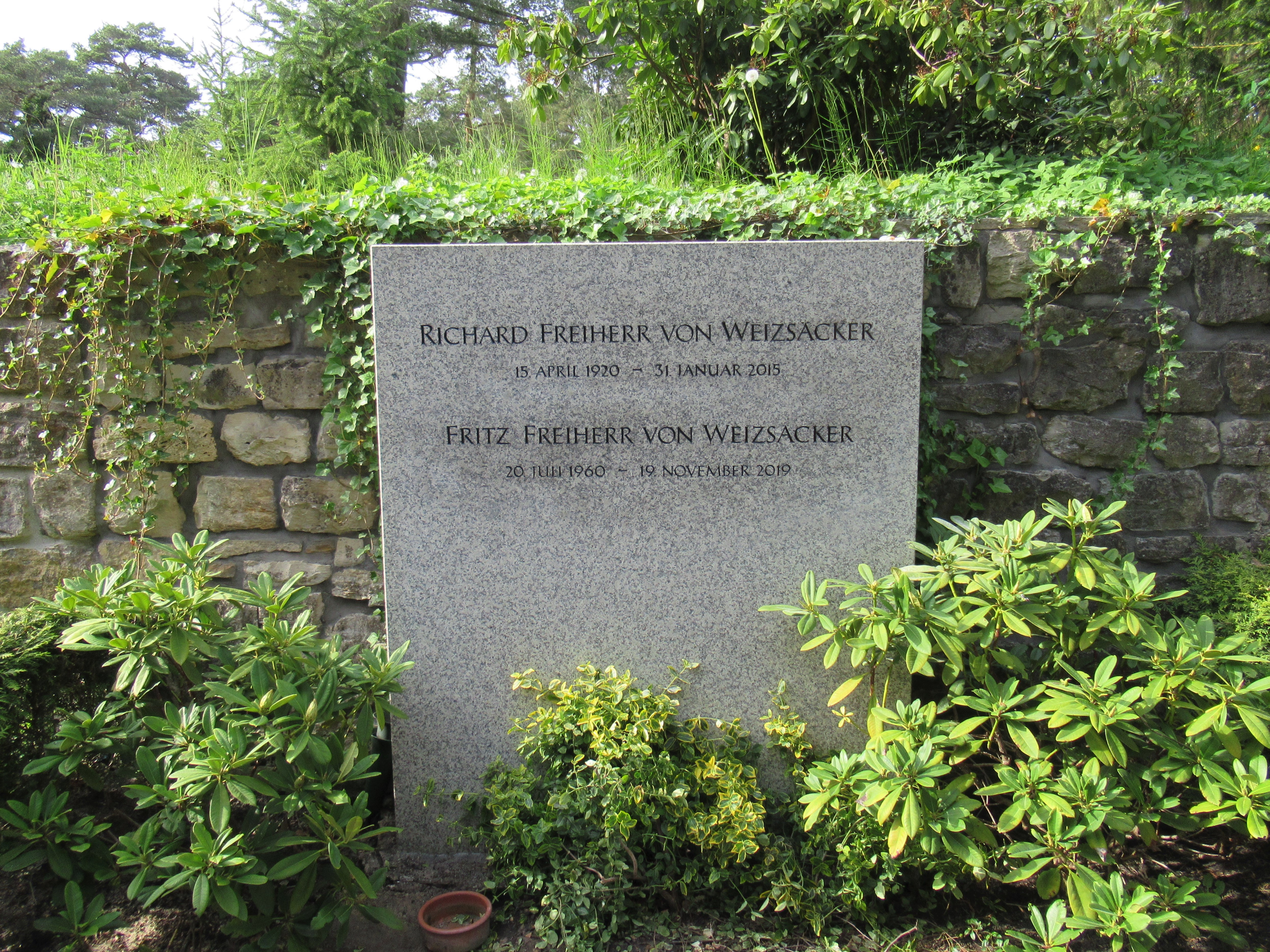 Grave of Richard von Weizsäcker and his son Fritz von Weizsäcker at Waldfriedhof Dahlem in Berlin-Dahlem